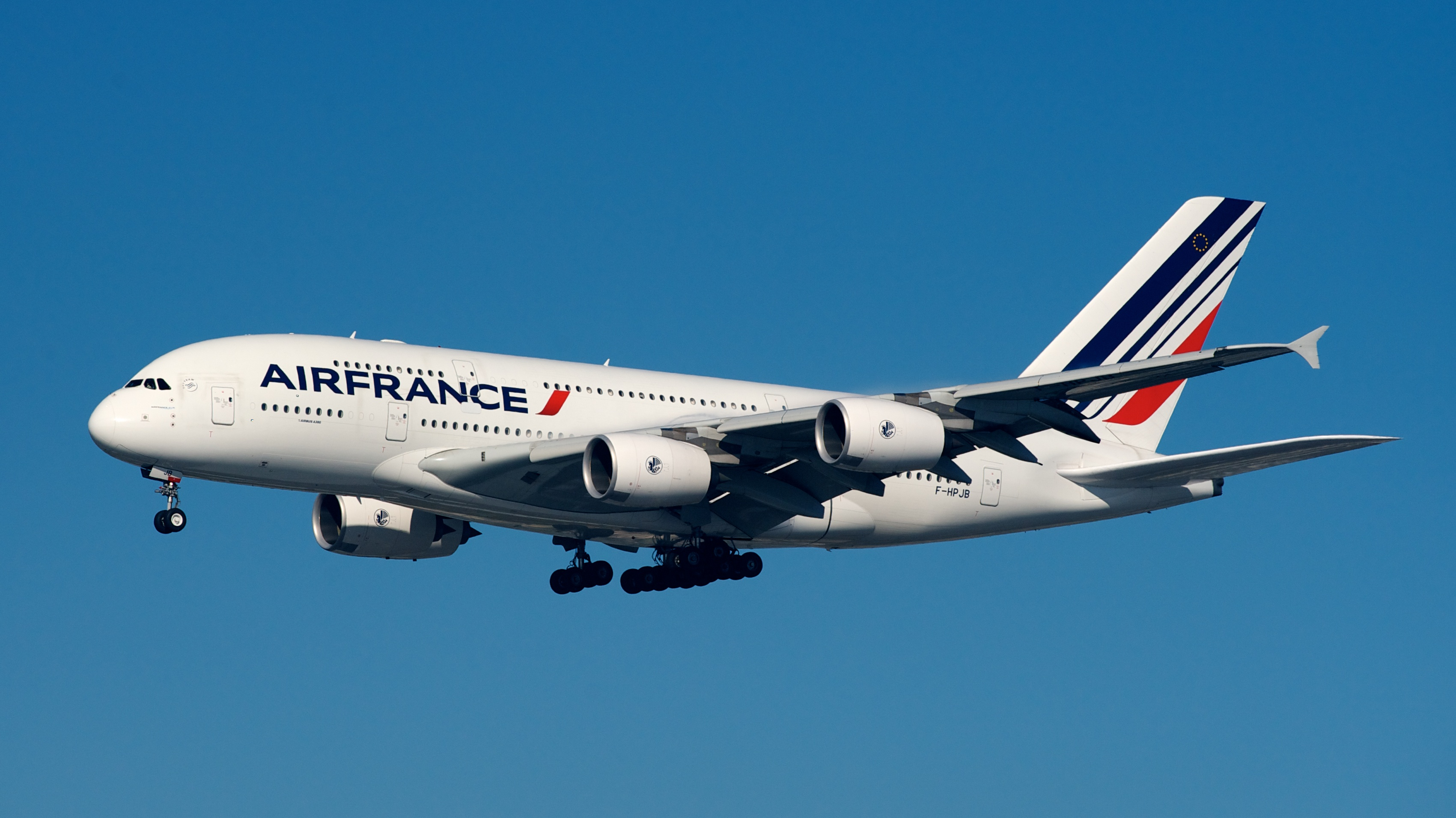 Arriving LAX north complex.